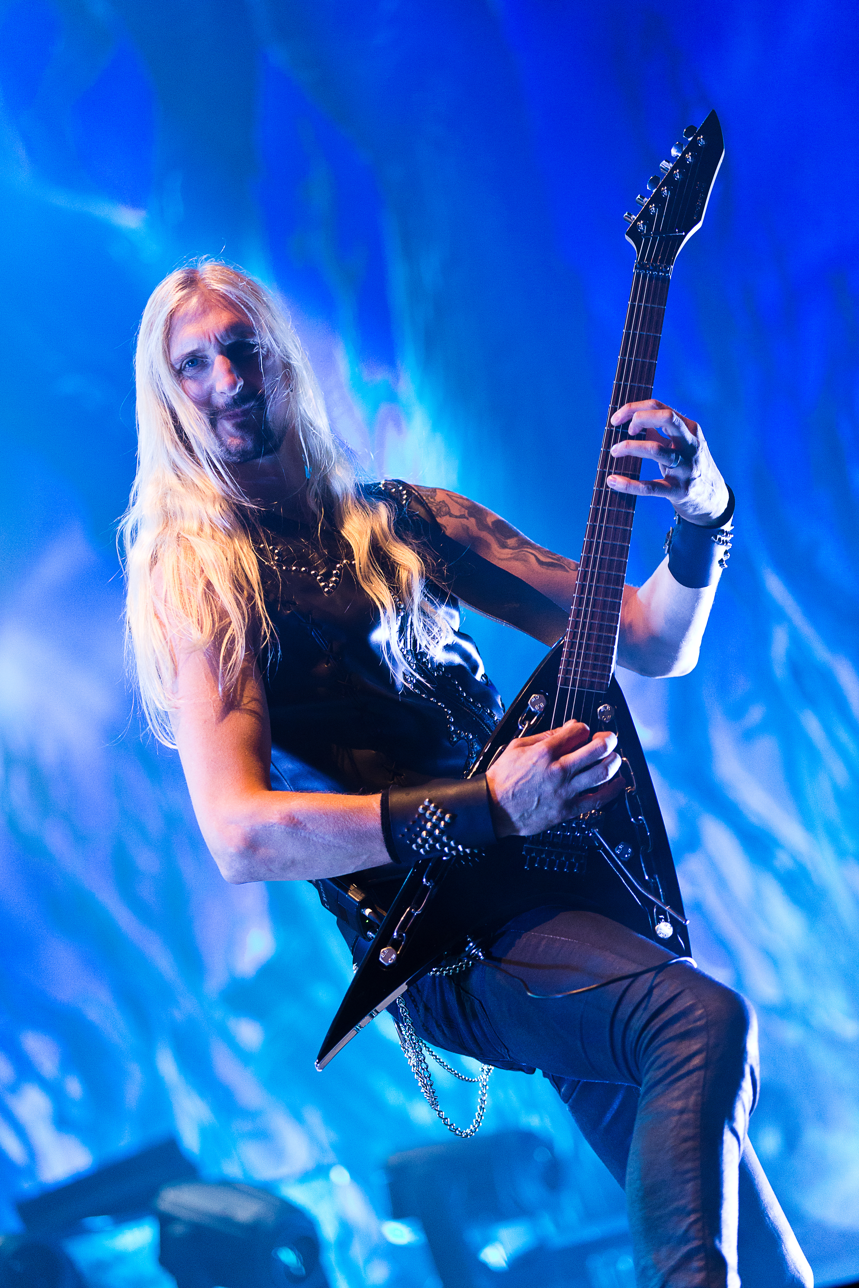 The Swedish power metal band Hammerfall at the Rockharz Open Air 2015 in Ballenstedt/Germany.